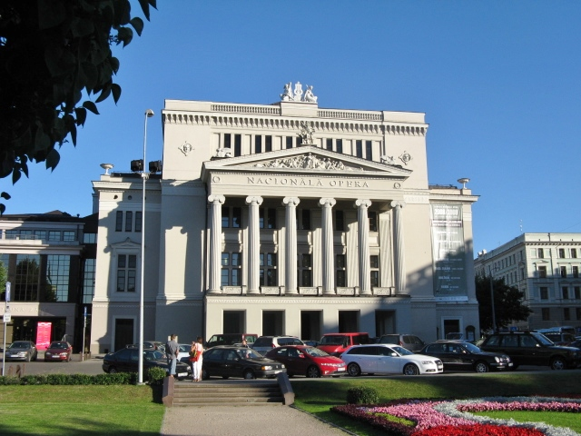 Latvian National Opera House in Riga